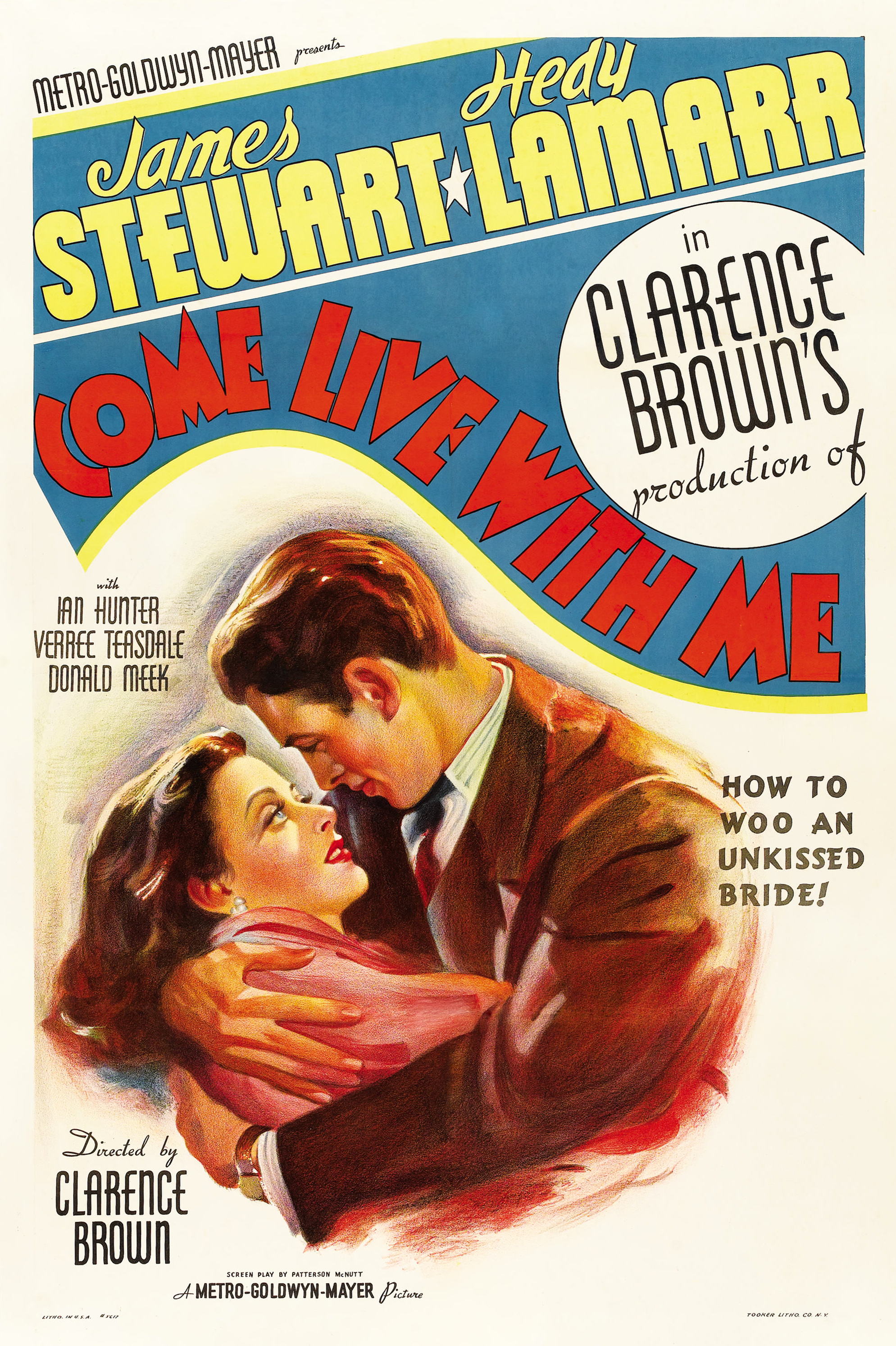 Poster for the 1941 film Come Live With Me. The item has no copyright markings on it as can be seen in the links above. At bottom left is Litho in USA #4617. At bottom right is Tooker Litho Co NY-they printed the poster.